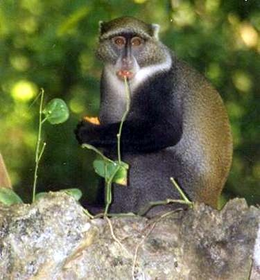 Sykes' Monkey (Cercopithecus albogularis).